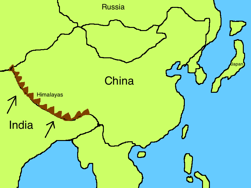 Tectonic map of Asia with no deformation